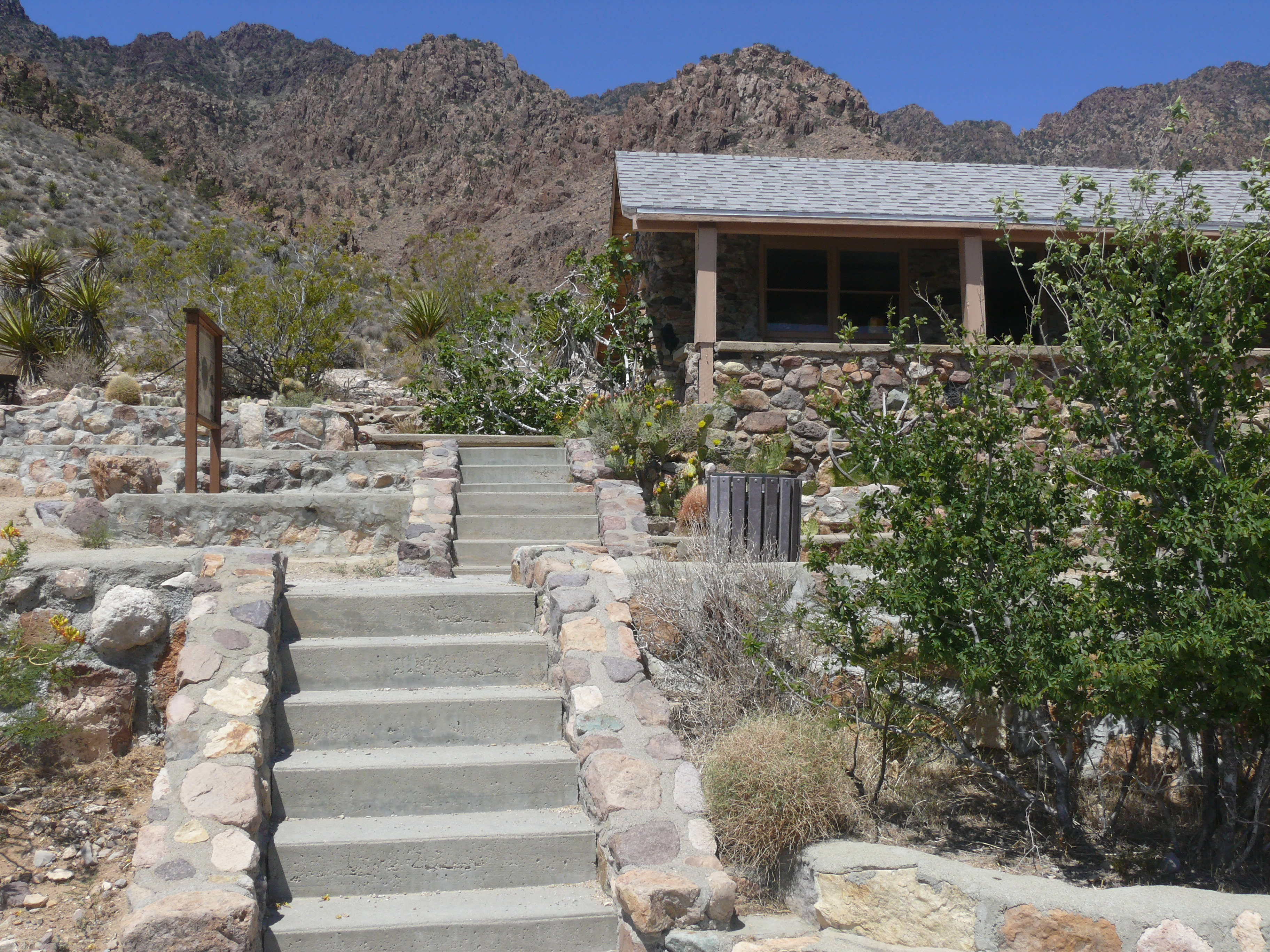 Left Hand view of the Providence Visitor Center